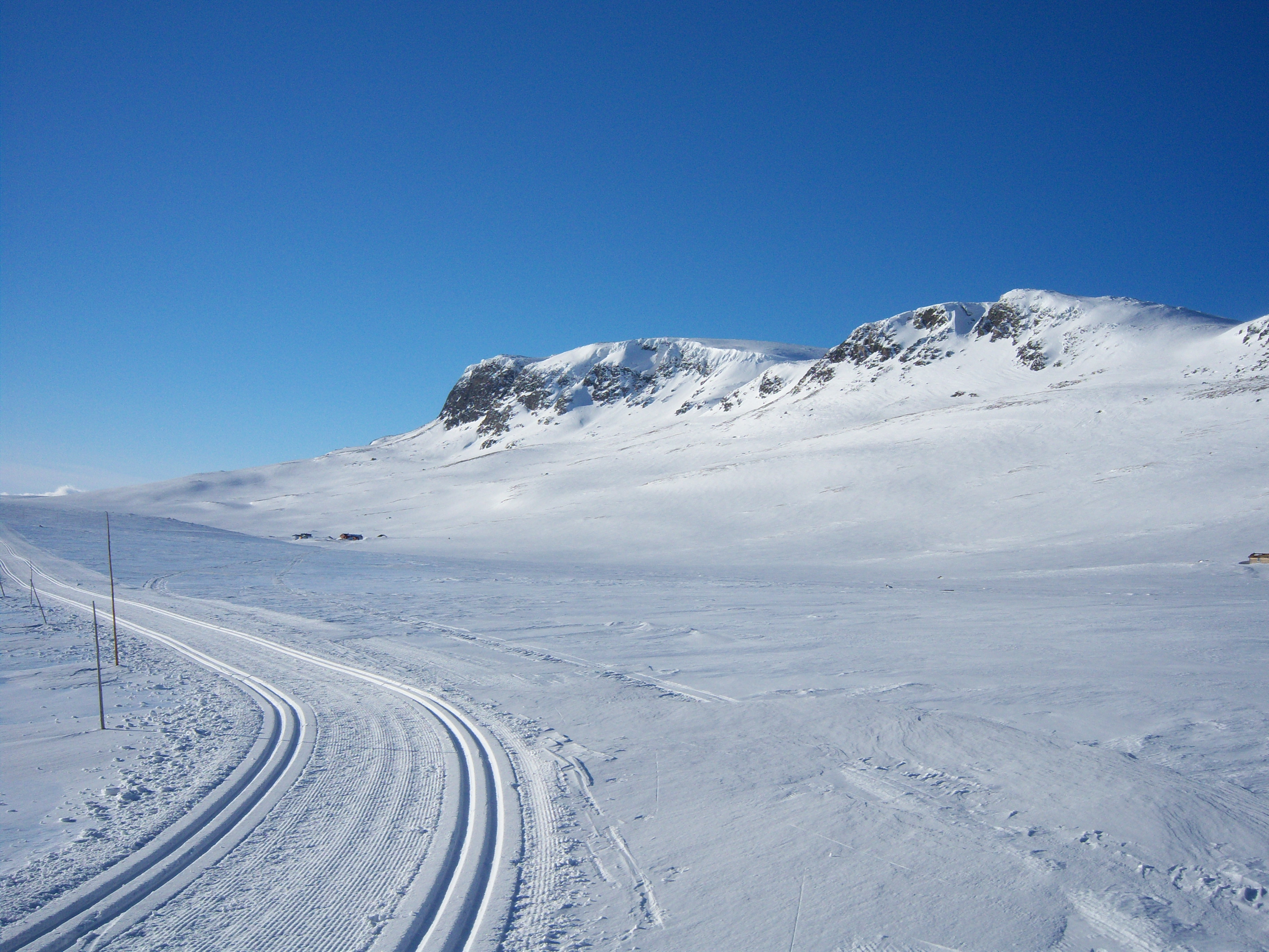 Skiing north of Geilo in Norway